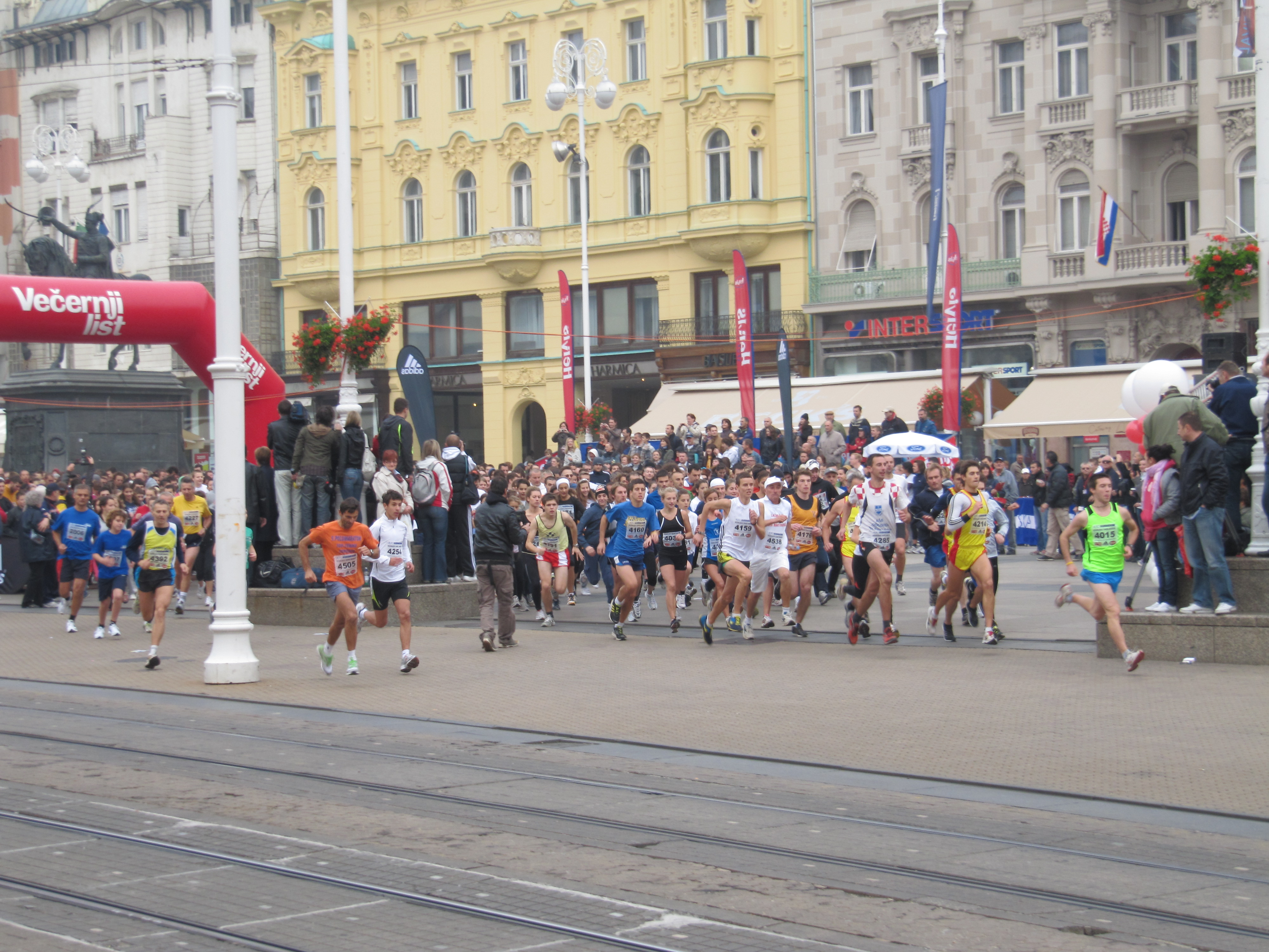 Start of the citizens race at the 2010 Zagreb Marathon.